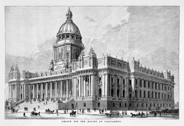 Lithograph of the original plans including dome and wings of Vicotian Houses of Parliament from Spring Street Melbourne.